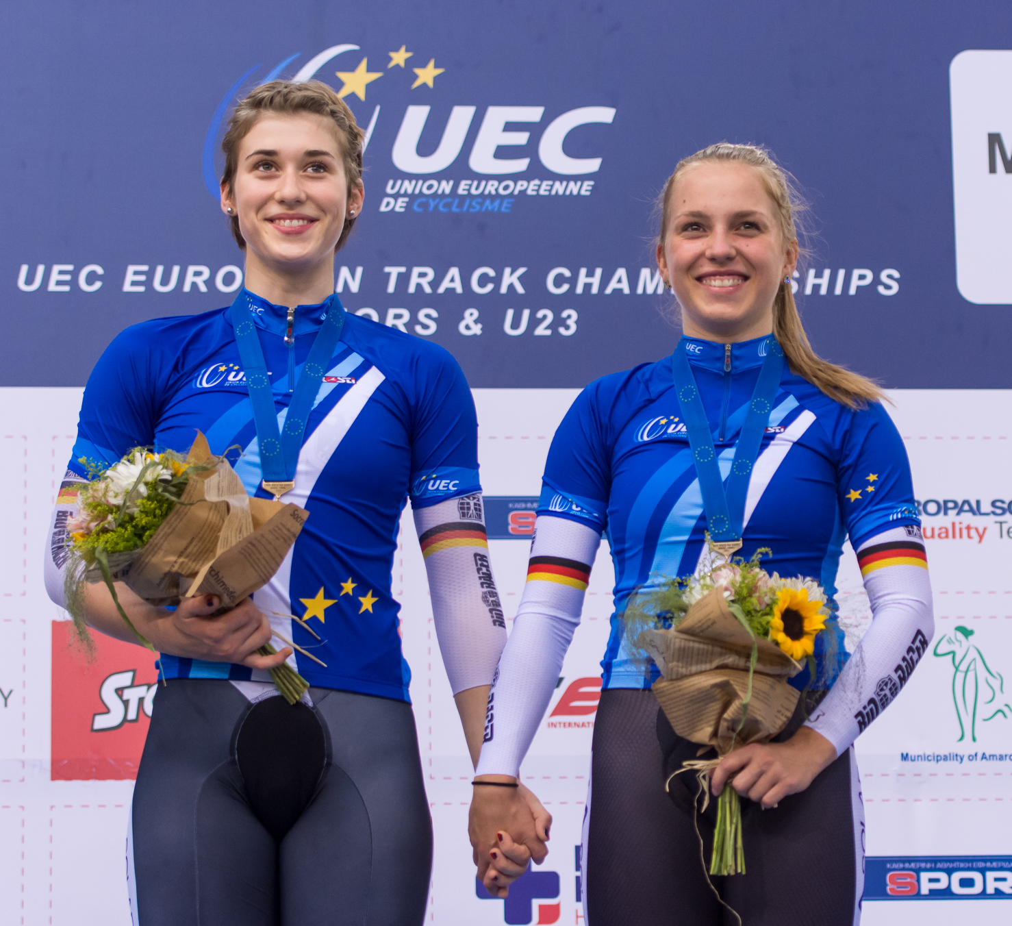 Pauline Grabosch (l.) and Emma Hinze during the medal ceremony at the European Junior Track Championships 2015 in Athens